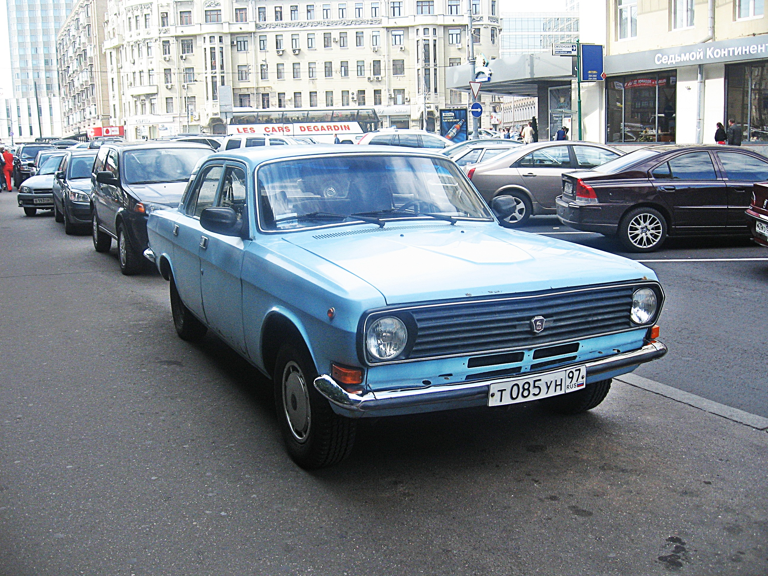 russian car